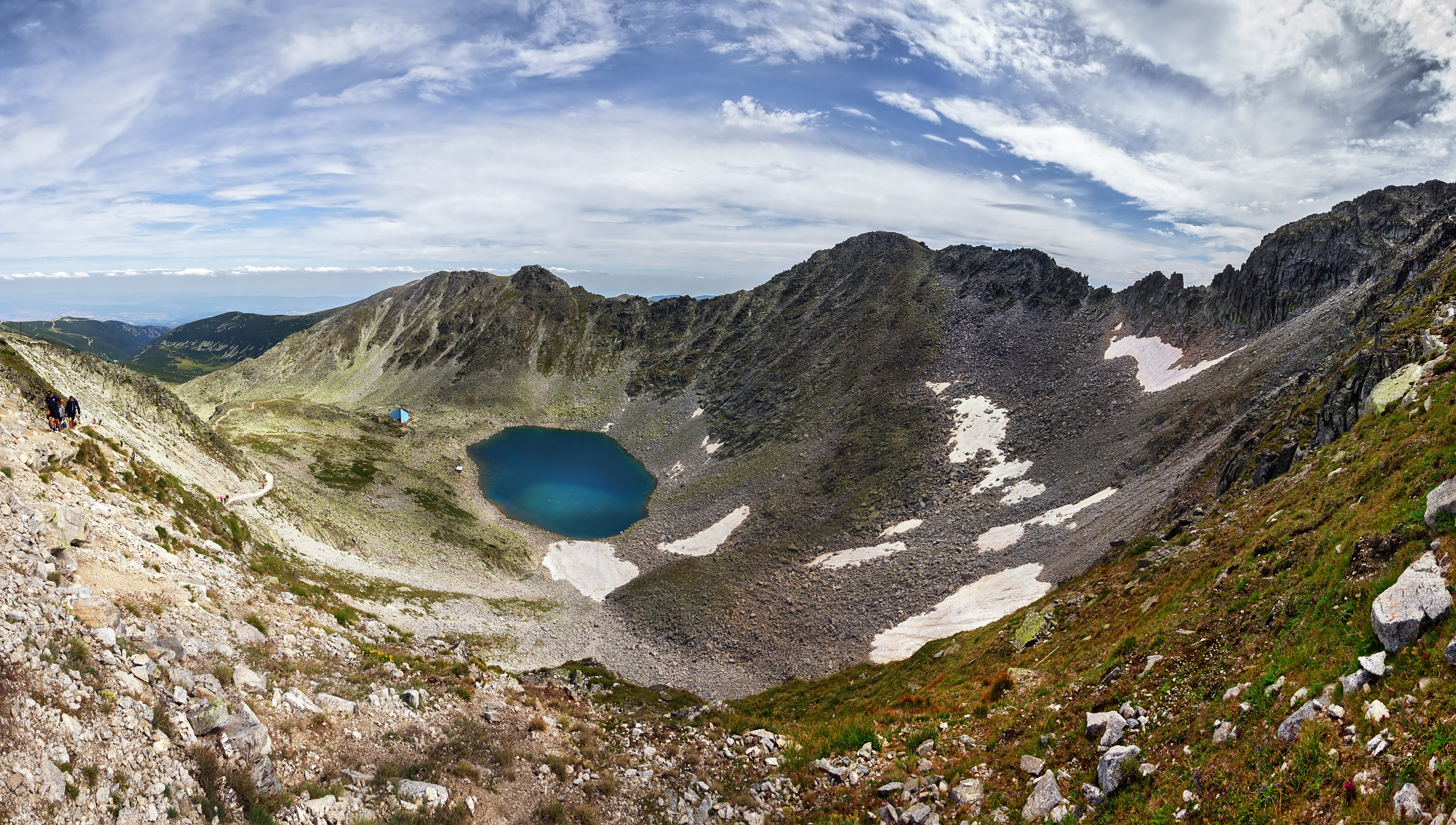 Tsentralen Rilski Rezervat, near peak Musala